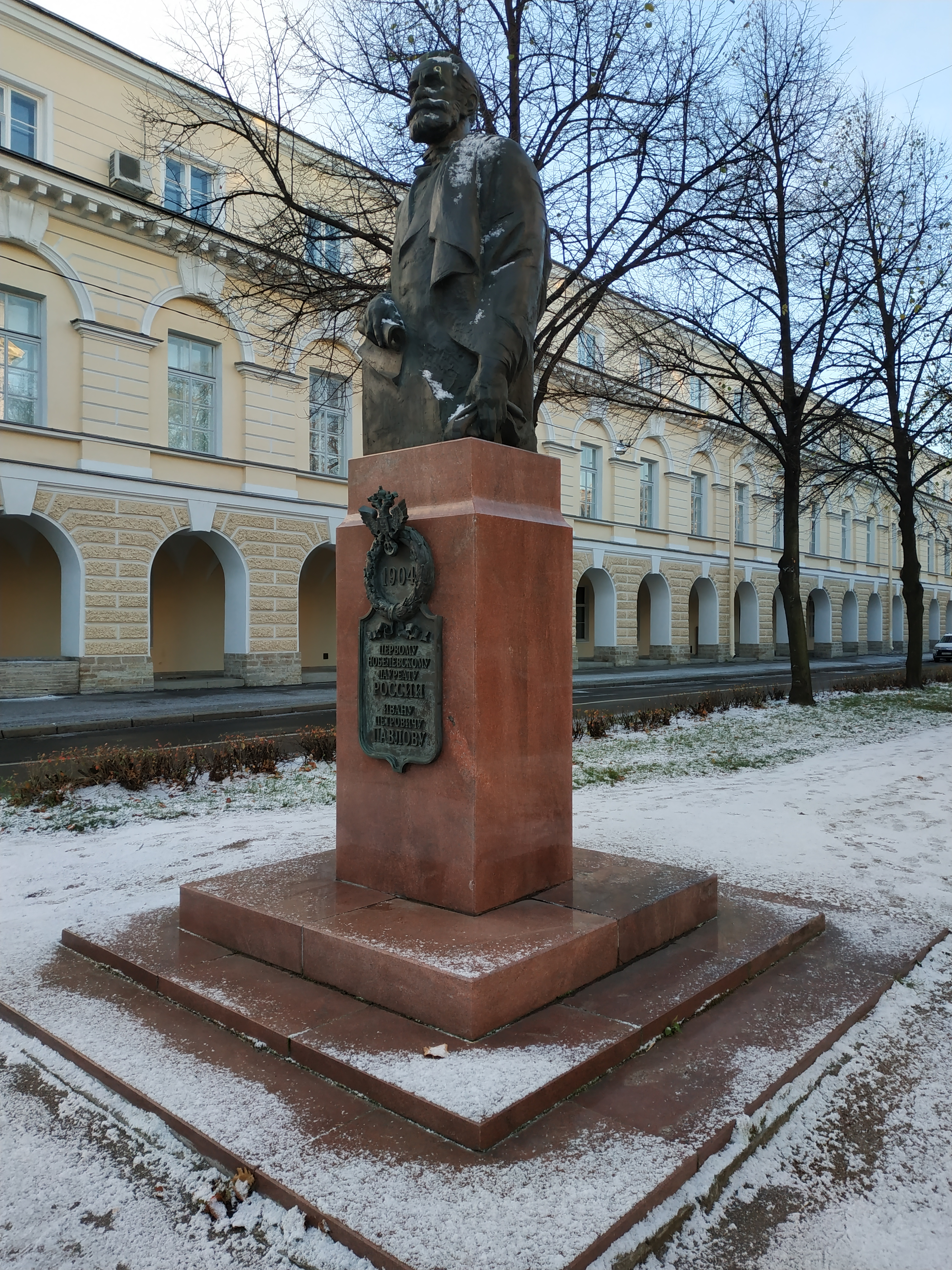 Ivan Pavlov was a Russian physiologist. Pavlov won the Nobel Prize for Physiology or Medicine in 1904, becoming the first Russian Nobel laureate. The memorial was build in 2004. Tiffliskay uliza